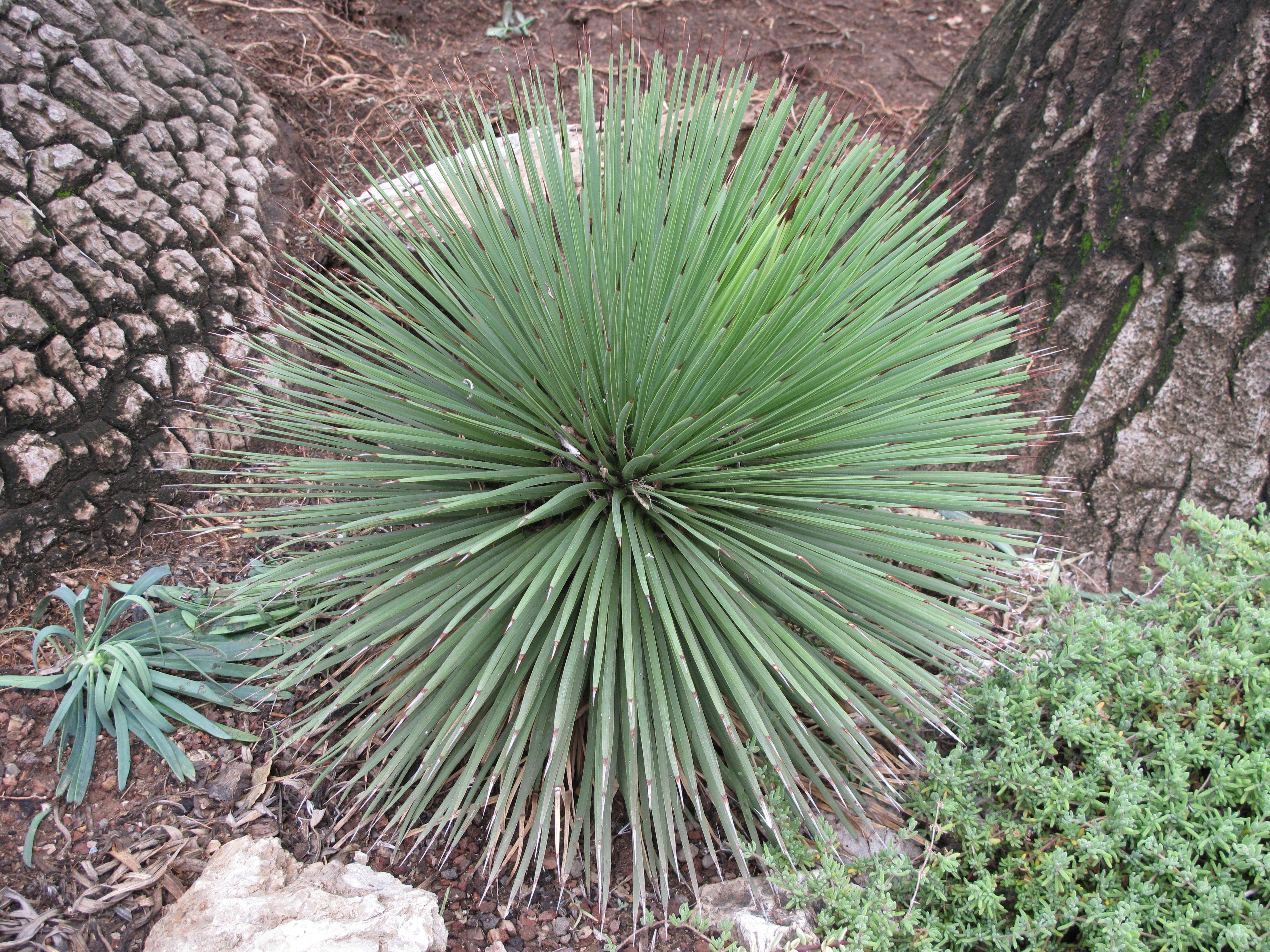 Agave stricta in exotic garden in Monaco